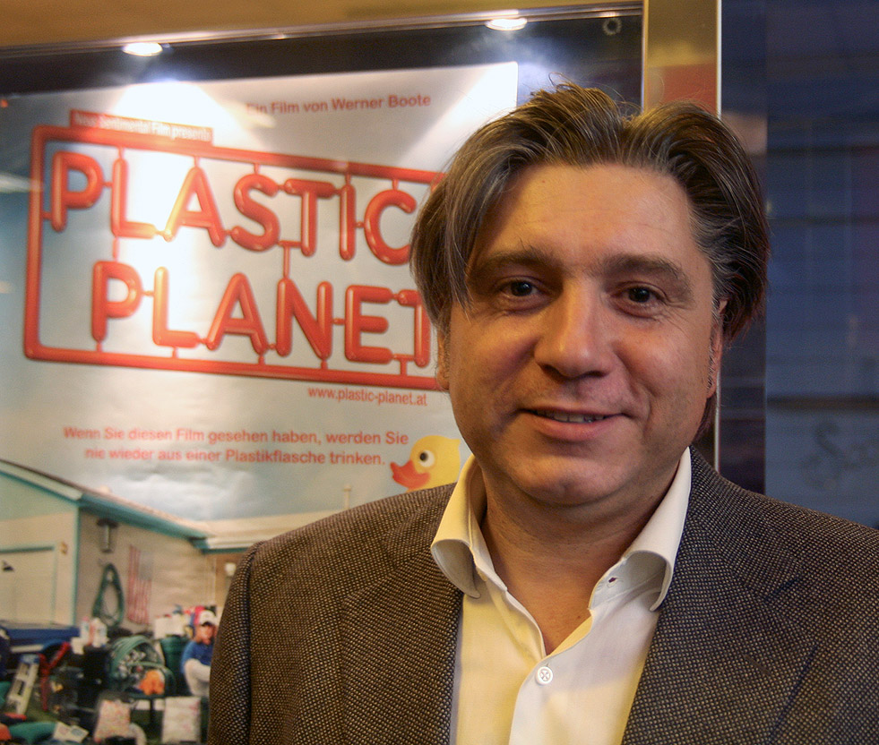 Werner Boote at the premiere of his documentary Plastic Planet at the Gartenbaukino in Vienna.